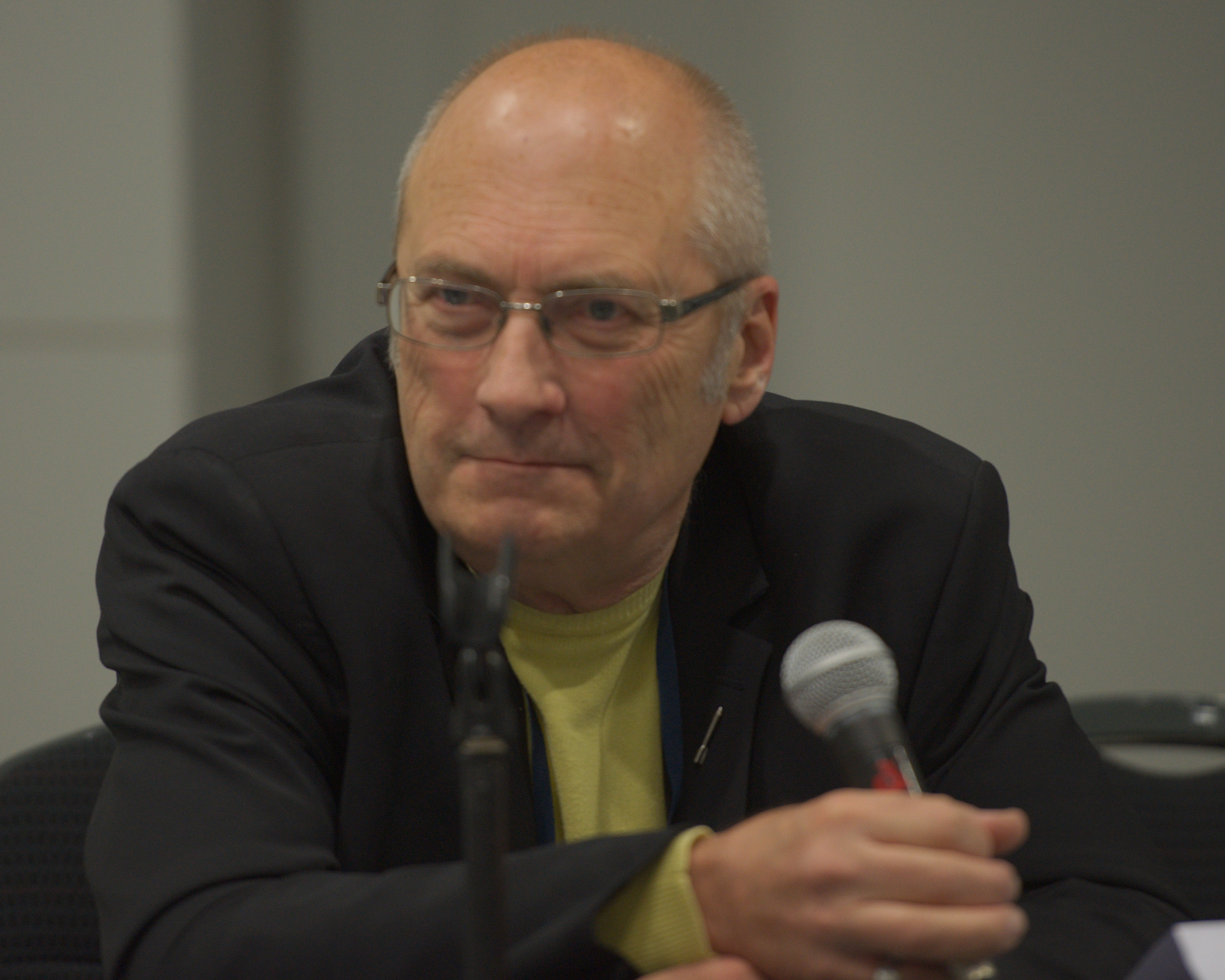 John Clute during his Guest of Honour interview at Loncon, Worldcon 2014.